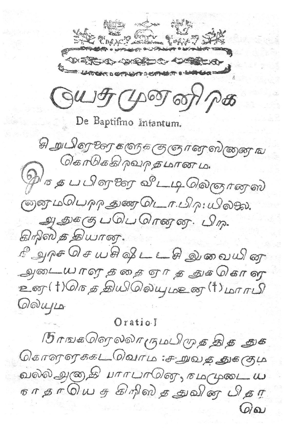 First page of a book titled "Explanations of Baptism procedures", prited in 1781 at Tranquebar/Tharangambadi. This is one of the oldest Christian books printed in Tamil Nadu, India. The image is taken from the book "Christianity and Tamil" by Tamil scholar Mayilai Seeni Venkatasamy in 1936. It was published by South Indian Saiva Sidhantha Publishers Limited at Tirunelveli. Venkatasamy got the idea for this book after listening to a speech by Madras Christian College Tamil professor sa. tha. Sargunar at a Tamil Conference in Chennai convened by The. Po. Meenakshi Sundaranar. Vipulanandar, Gnanaprakasar and Sargunar have written the preface for this book. The page depicted seems to describe the procedure for baptizing infants (De Baptismo Infantum)